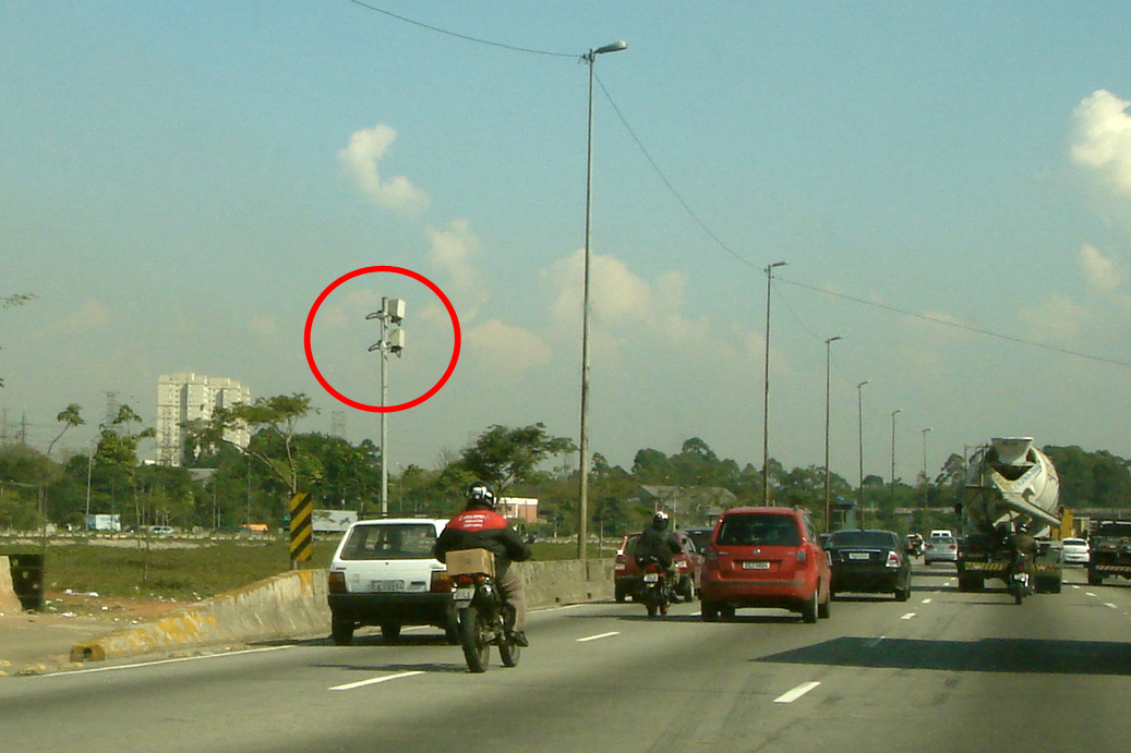 Speed camera used for automatic traffic surveillance of vehicle restrictions (road space rationing) at São Paulo City, Brazil